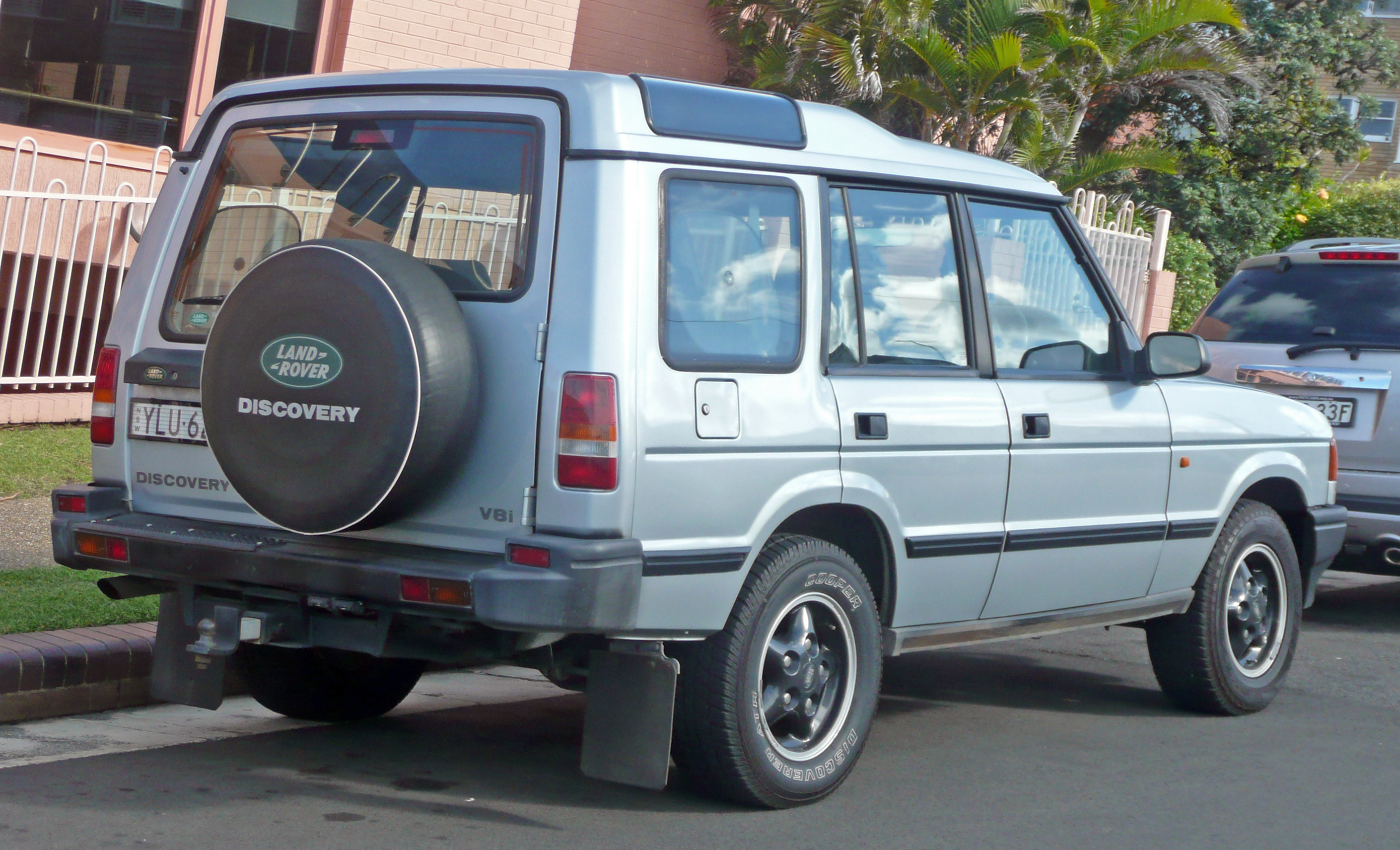 1997 Land Rover Discovery V8i. Photographed in Cronulla, New South Wales, Australia.